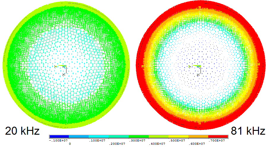 Example current density in circle copper wire with diameter of 2 mm at two different frequencies 20 kHz and 81 kHz where skin effect occures (total current in conductors 10 A of amplitude)